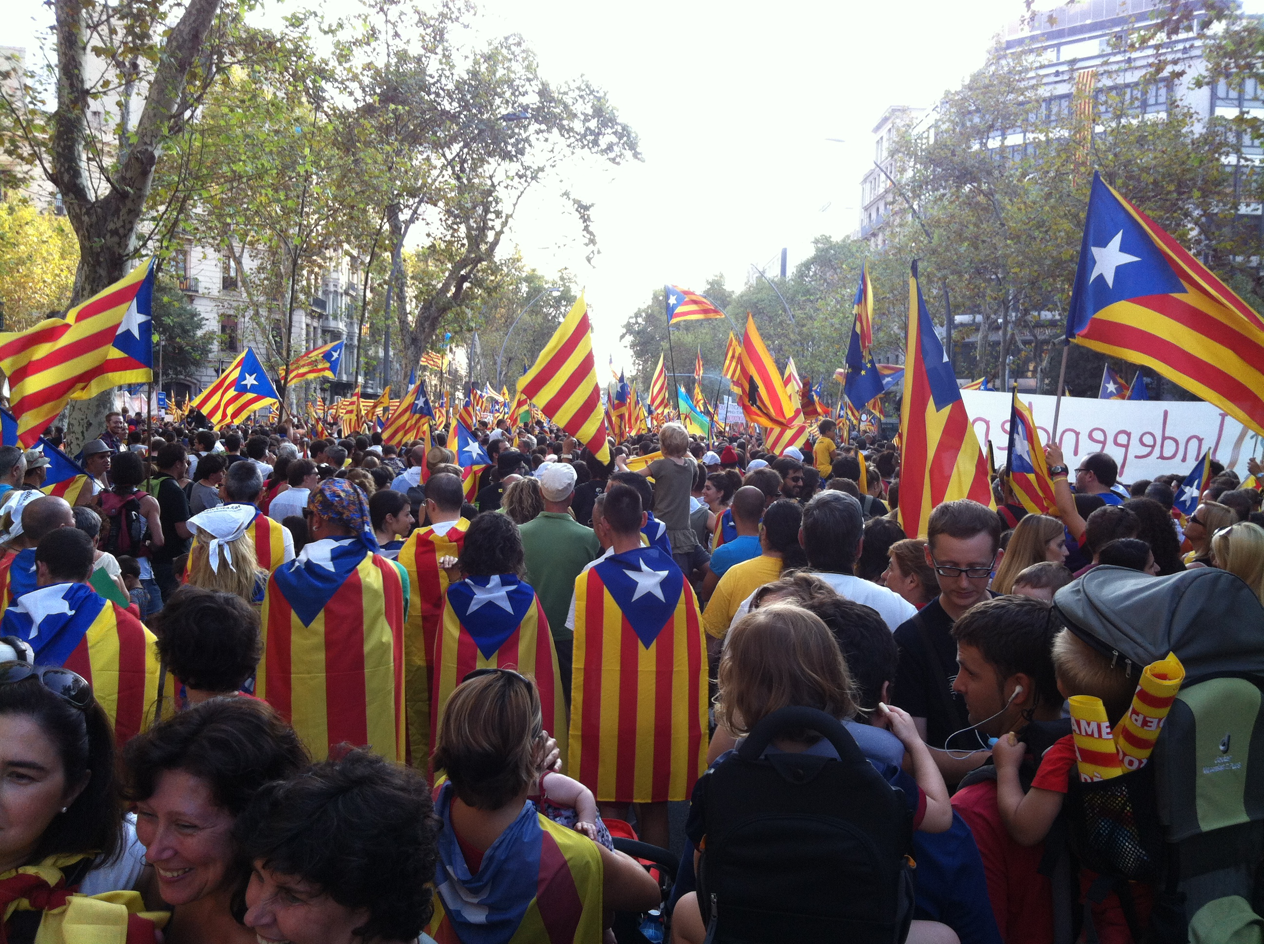 2012 Catalan independence protest on September 11th